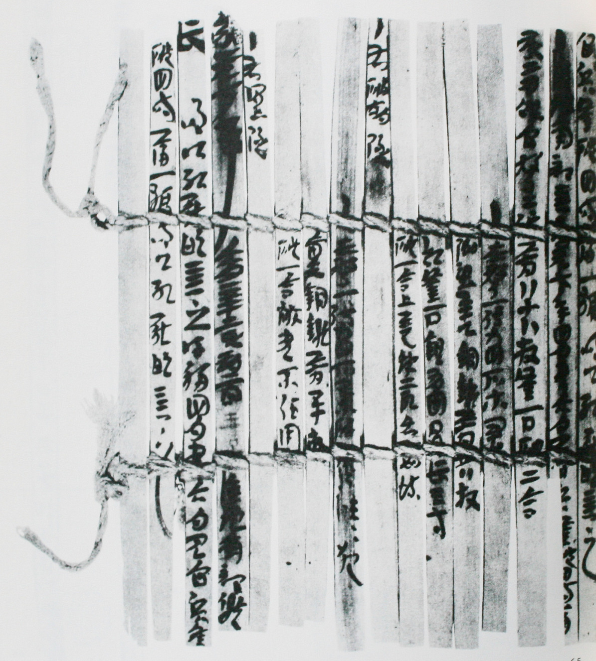 Wood Strips Document Origimal Bounded . ACE98, Unearthed in NIYA near Etina River, China in 1930 Category:Calligraphy of the Eastern Han Dynasty